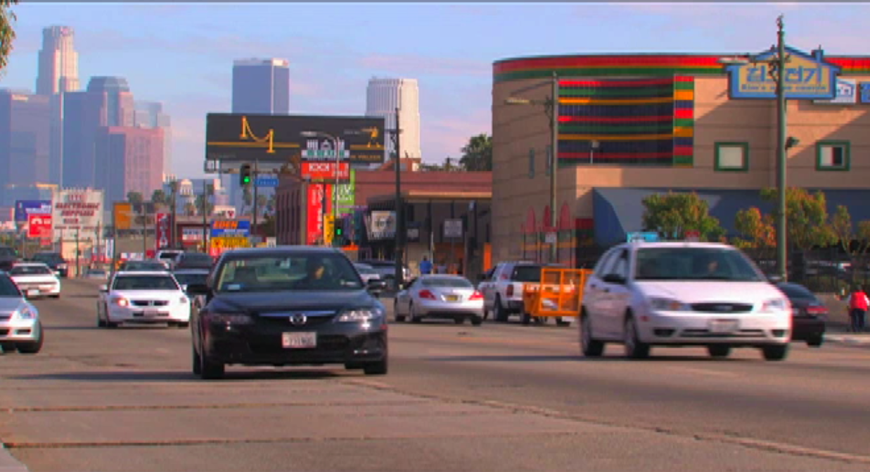 Olympic Boulevard in Los Angeles is the heart of Koreatown